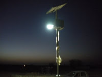 this is so cheap and so long time running without maintainance